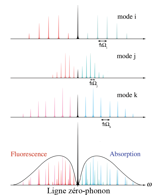 Lattice modes contributing to the zero-phonon line and associated phonon side band. Created by Mark Somoza based on figures in: J. Friedrich and D. Haarer (1984). “Photochemical Hole Burning: A Spectroscopic Study of Relaxation Processes in Polymers and Glasses”. Angewandte Chemie International Edition in English 23, 113-140. Version française.